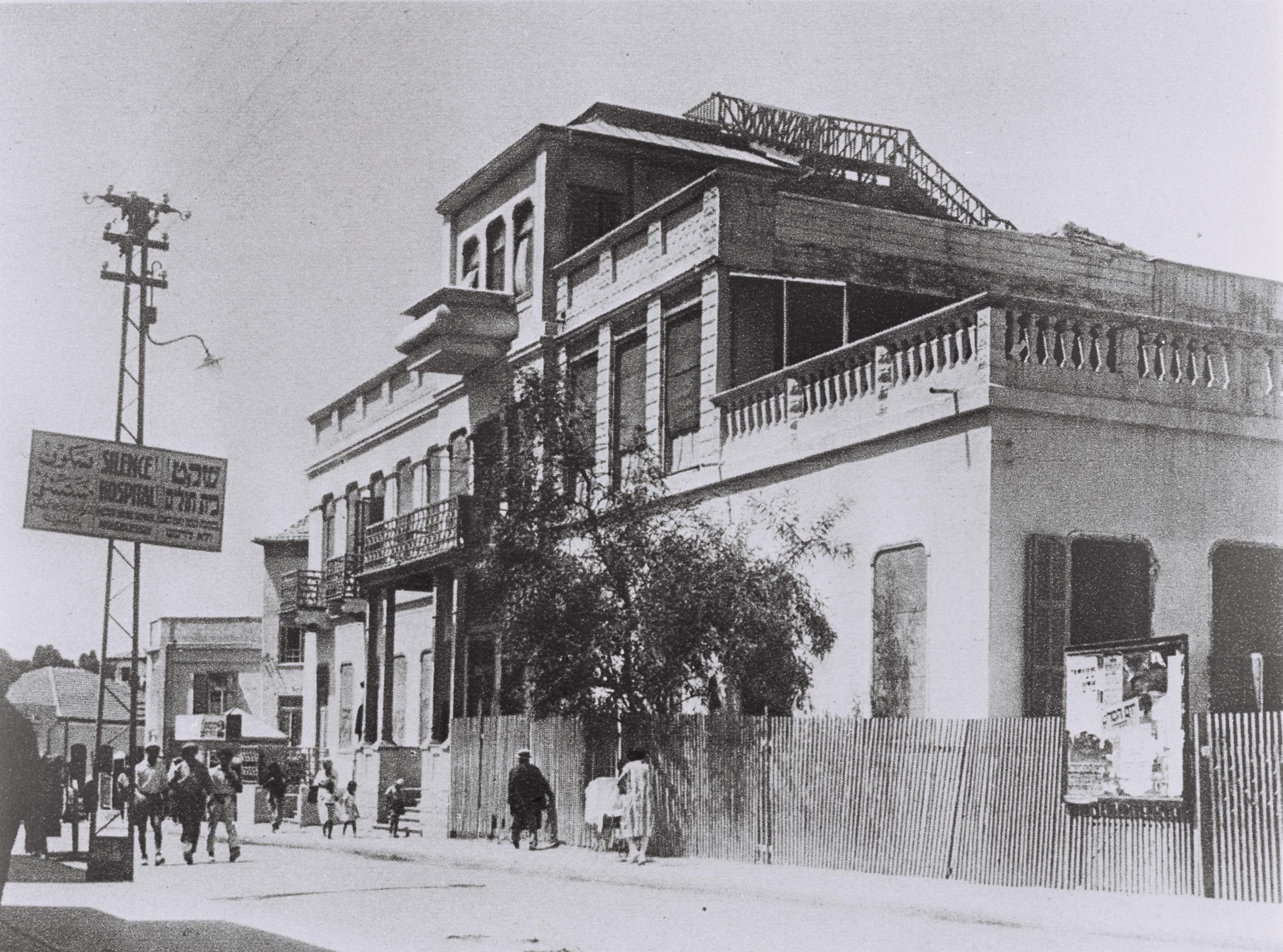 THE "HADASSA" HOSPITAL ON NAHALAT BENYAMIN STREET IN TEL AVIV. בית החולים "הדסה" בנחלת בנימין בתל אביב.